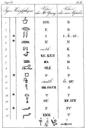 Page from Jean Francois Champollion's 1824 precis, demonstrating the differences between his decipherment and that of Thomas Young